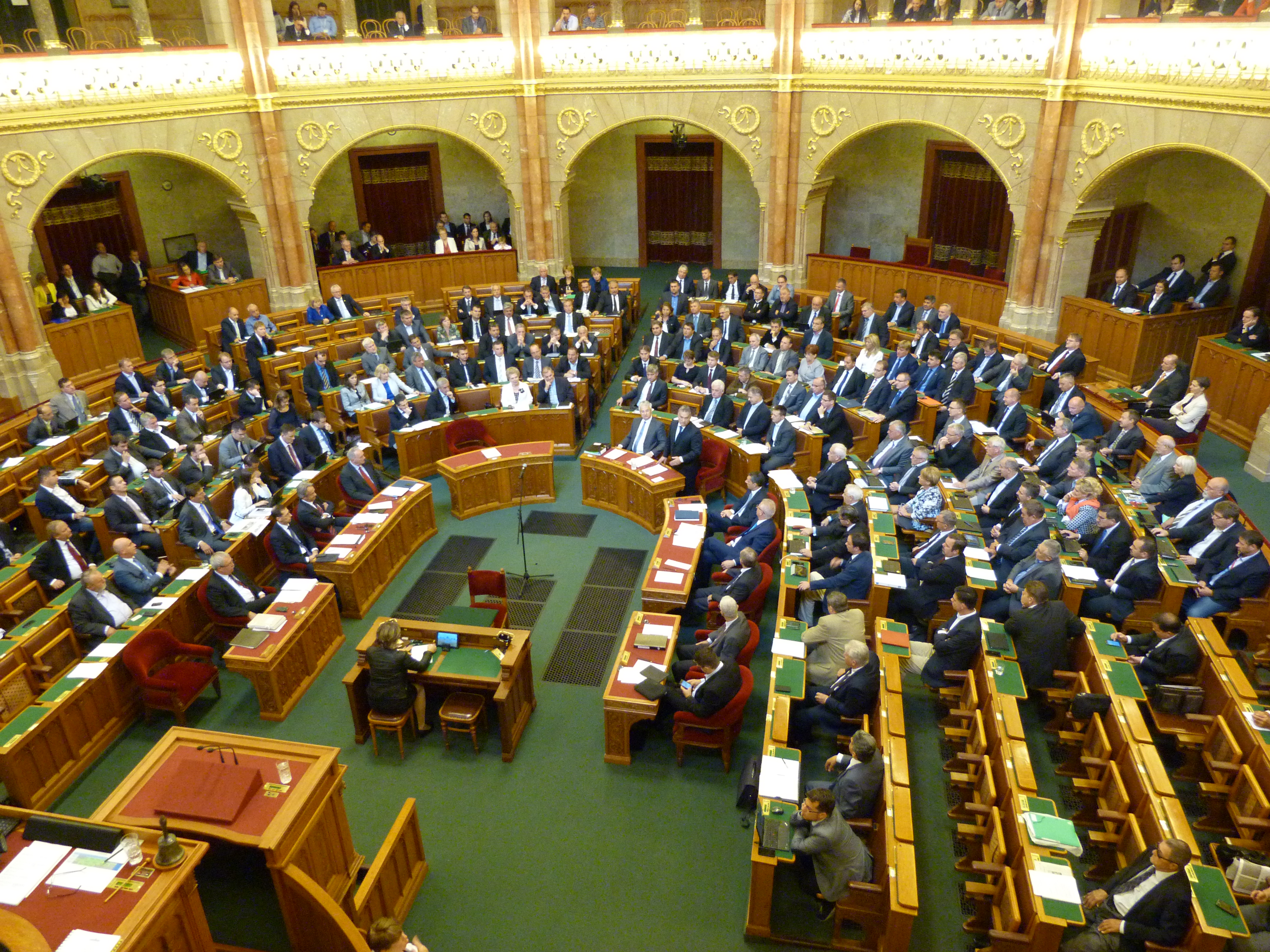 Live on the 21st of September, 2015. House of Commons, Budapest, Hungary. On this day Autumn Session of the Parliament, first day. Viktor Orbán adressing the House: Dealing with mass migration. The House decided with a 2/3 majority vote to enpower the Hungarian Defence Forces to assist the police at the borders of Hungary (Proposition T5985).